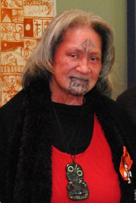 Nganeko Minhinnick, after her investiture as DNZM for services to Māori and conservation